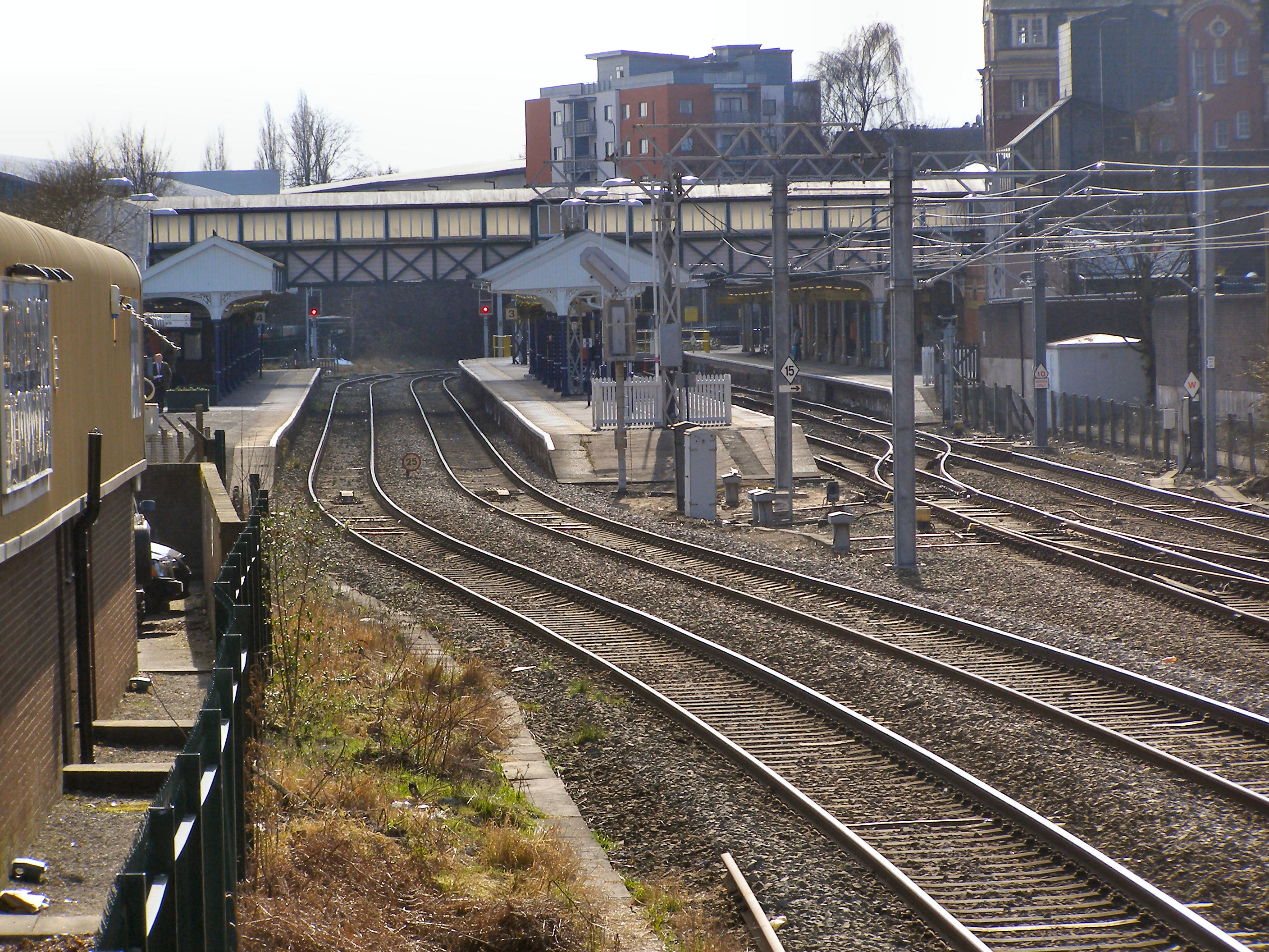 Altrincham Station Approaching Altrincham Station. Railway track on the left, tram track on the right.